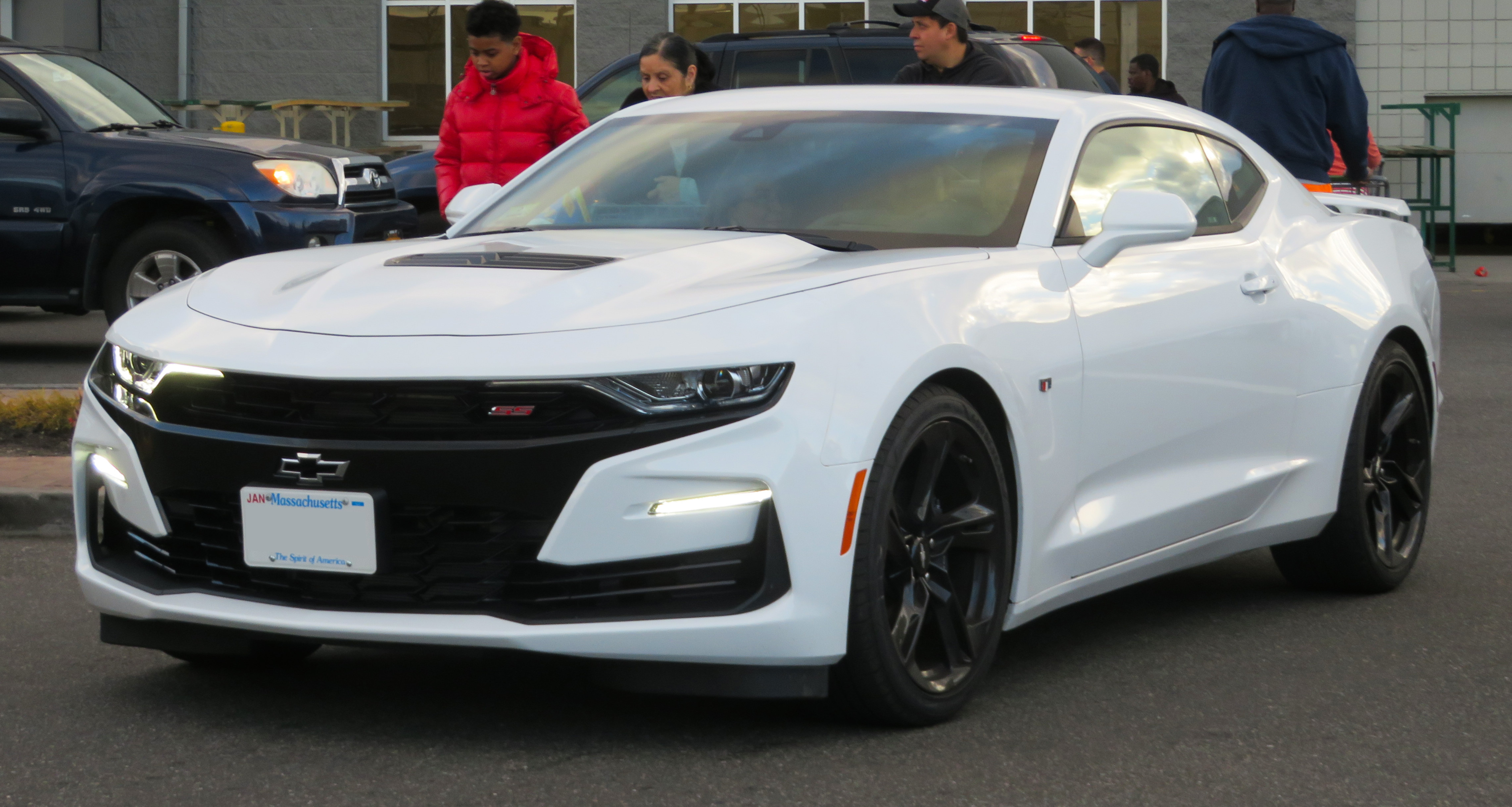 A 2019 Chevrolet Camaro 2SS photographed in Green Acres Mall parking lot, Valley Stream, New York, USA